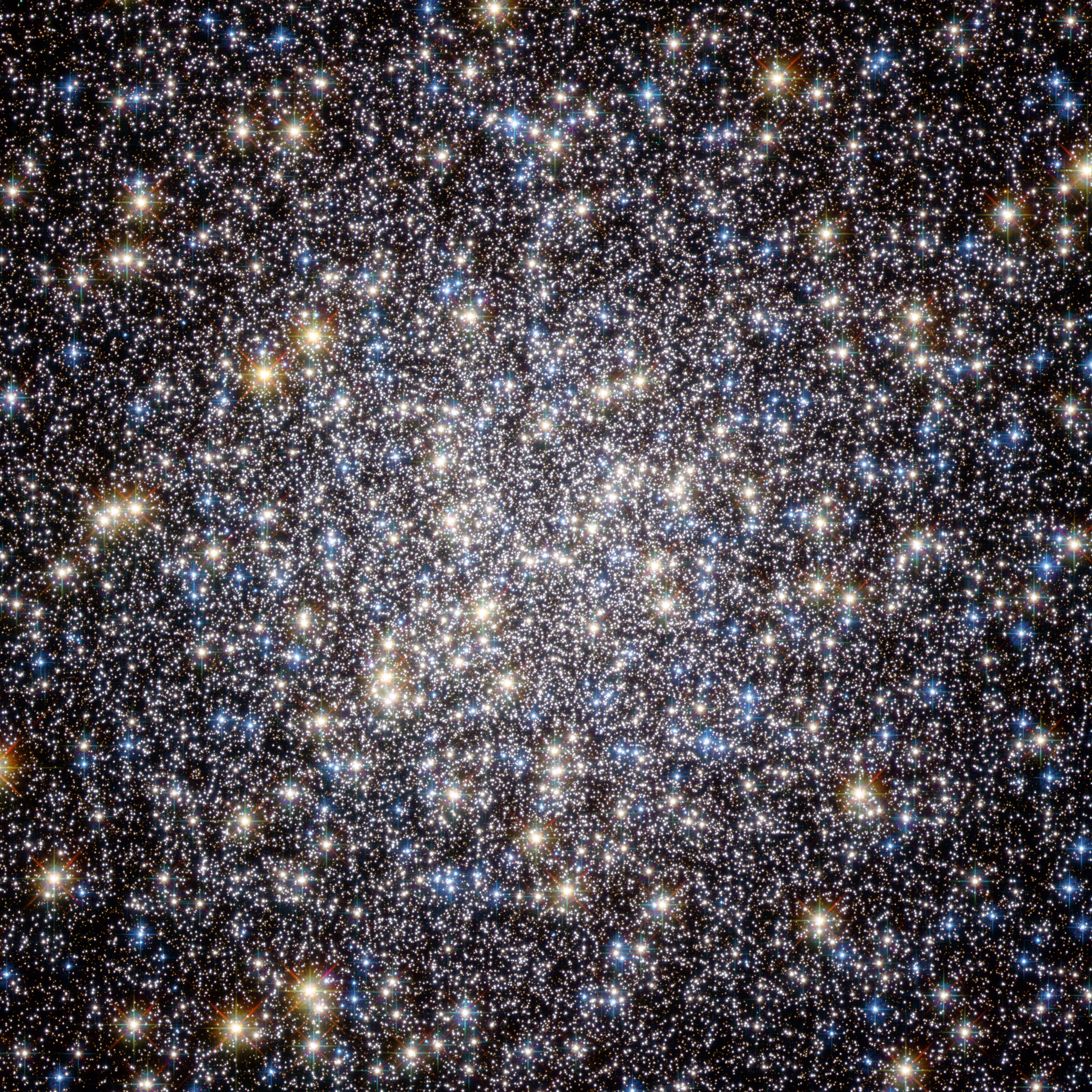 This image, taken by the Advanced Camera for Surveys on the Hubble Space Telescope, shows the core of the great globular cluster Messier 13 and provides an extraordinarily clear view of the hundreds of thousands of stars in the cluster, one of the brightest and best known in the sky. Just 25 000 light-years away and about 145 light-years in diameter, Messier 13 has drawn the eye since its discovery by Edmund Halley, the noted British astronomer, in 1714. The cluster lies in the constellation of Hercules and is so bright that under the right conditions it is even visible to the unaided eye. As Halley wrote: “This is but a little Patch, but it shews it self to the naked Eye, when the Sky is serene and the Moon absent.” Messier 13 was the target of a symbolic Arecibo radio telescope message that was sent in 1974, communicating humanity’s existence to possible extraterrestrial intelligences. However, more recent studies suggest that planets are very rare in the dense environments of globular clusters. This picture was created from images taken with the Wide Field Channel of the Advanced Camera for Surveys on the Hubble Space Telescope. Data through a blue filter (F435W) are coloured blue, data through a red filter (F625W) are coloured green and near-infrared data (through the F814W filter) are coloured red. The exposure times are 1480 s, 380 s and 567 s respectively and the field of view is about 2.5 arcminutes across.